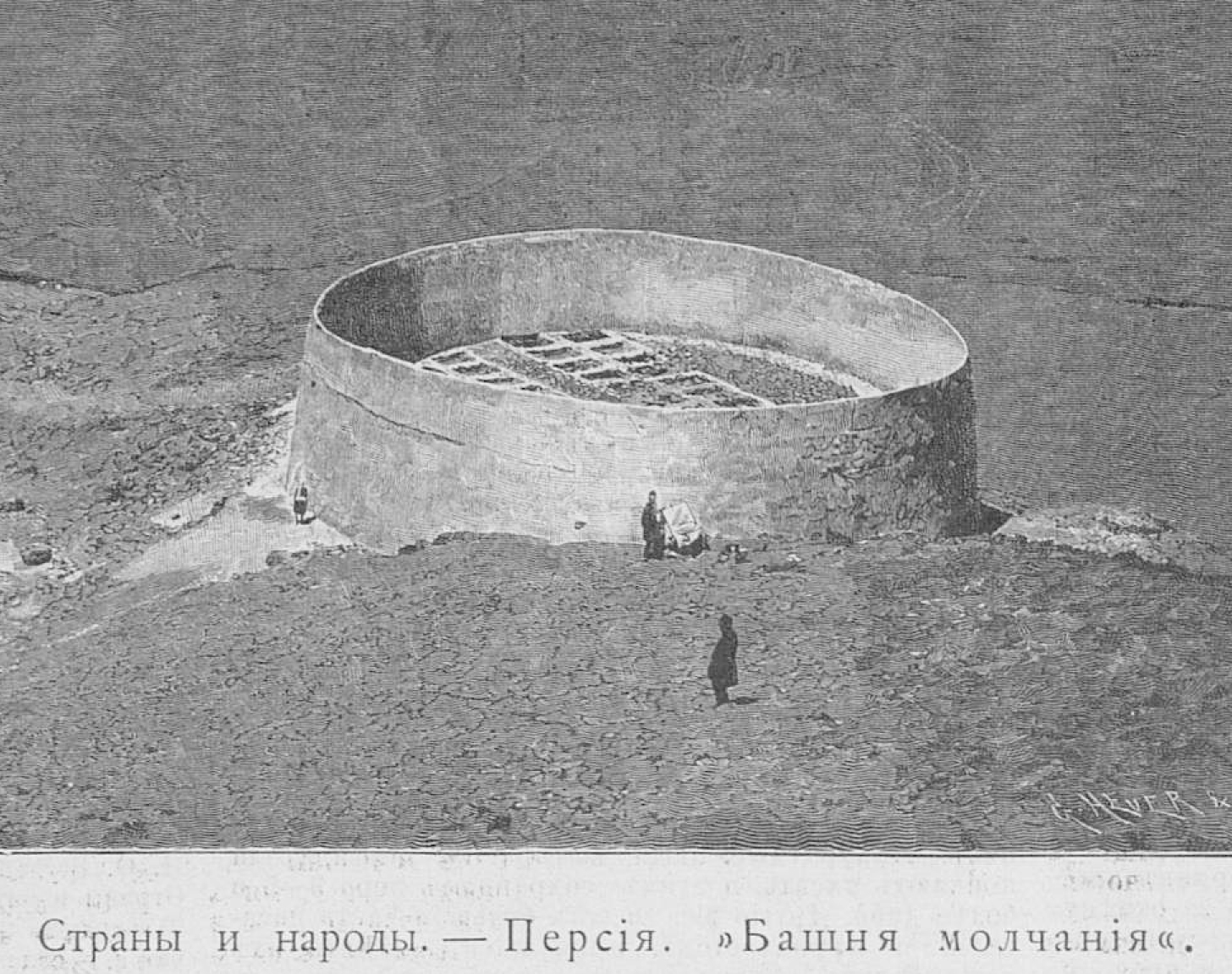 Tower of silence in Persia, XIX century.